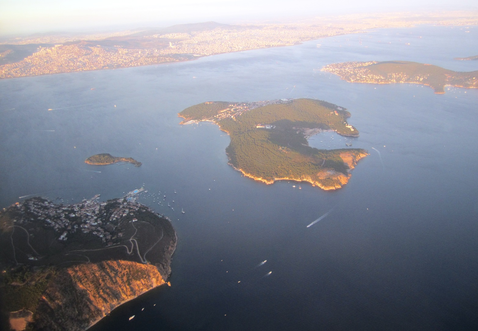 Aerial View on the Princes' Islands